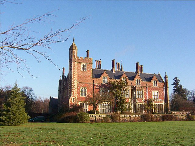 Horsted Place, near to Little Horsted, East Sussex, Great Britain. Built by George Myers in 1850 for Francis Barchard, much of the detail was designed by Augustus Pugin. Bought by Lord Rupert Nevill in 1965, HM the Queen and HRH Prince Philip were frequent visitors. Now operated as a country house hotel.